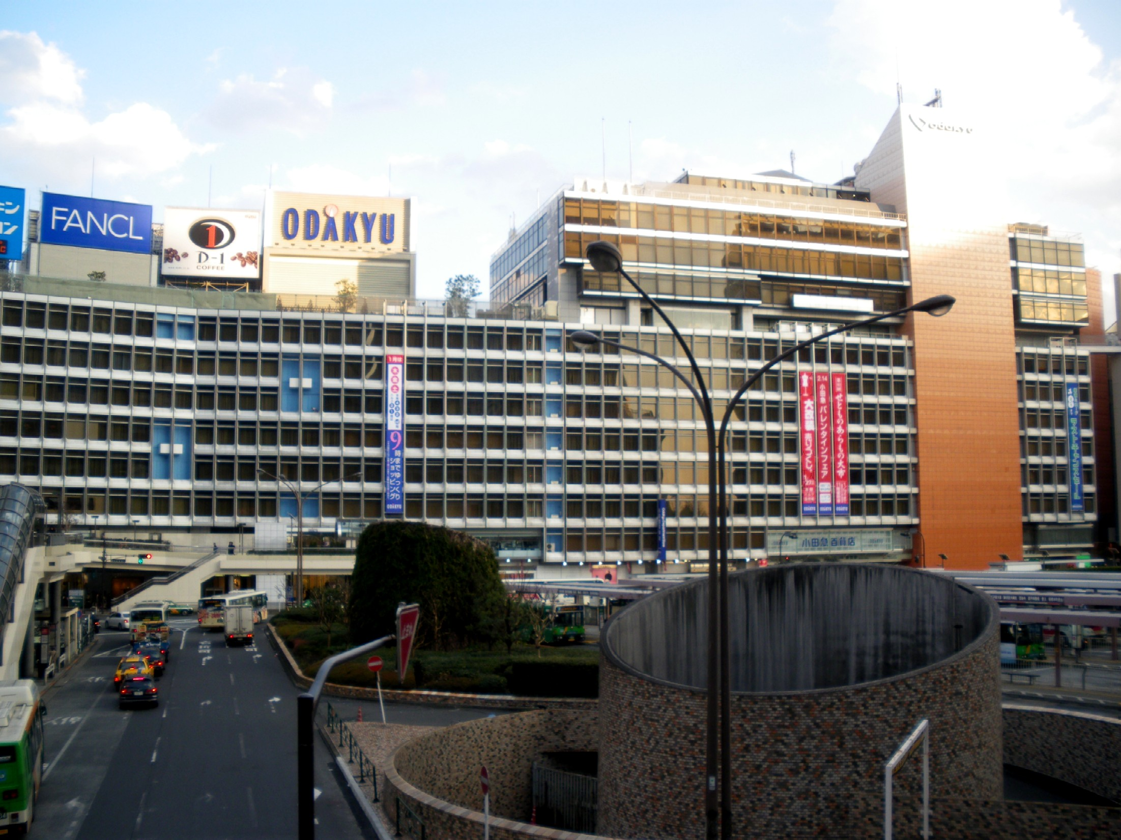 A photo of Odakyu Department Shinjuku Store (head store), one of the famous Department Stores in Tokyo, Japan.